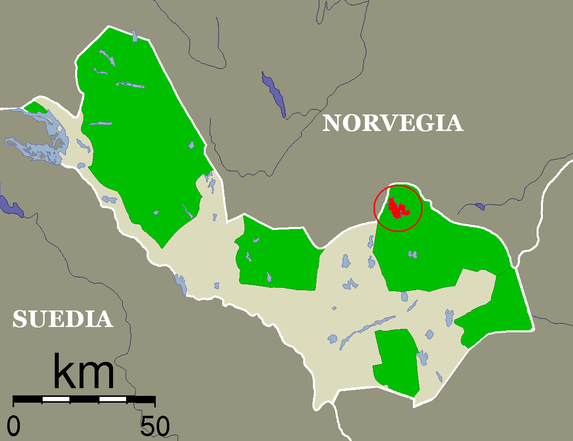 Map of Enontekiö, Finland (in Basque) Pöyrisjärvi lake in red